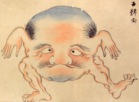 Gotaimen (五体面) from the Hyakki Yagyō Emaki (百鬼夜行絵巻)